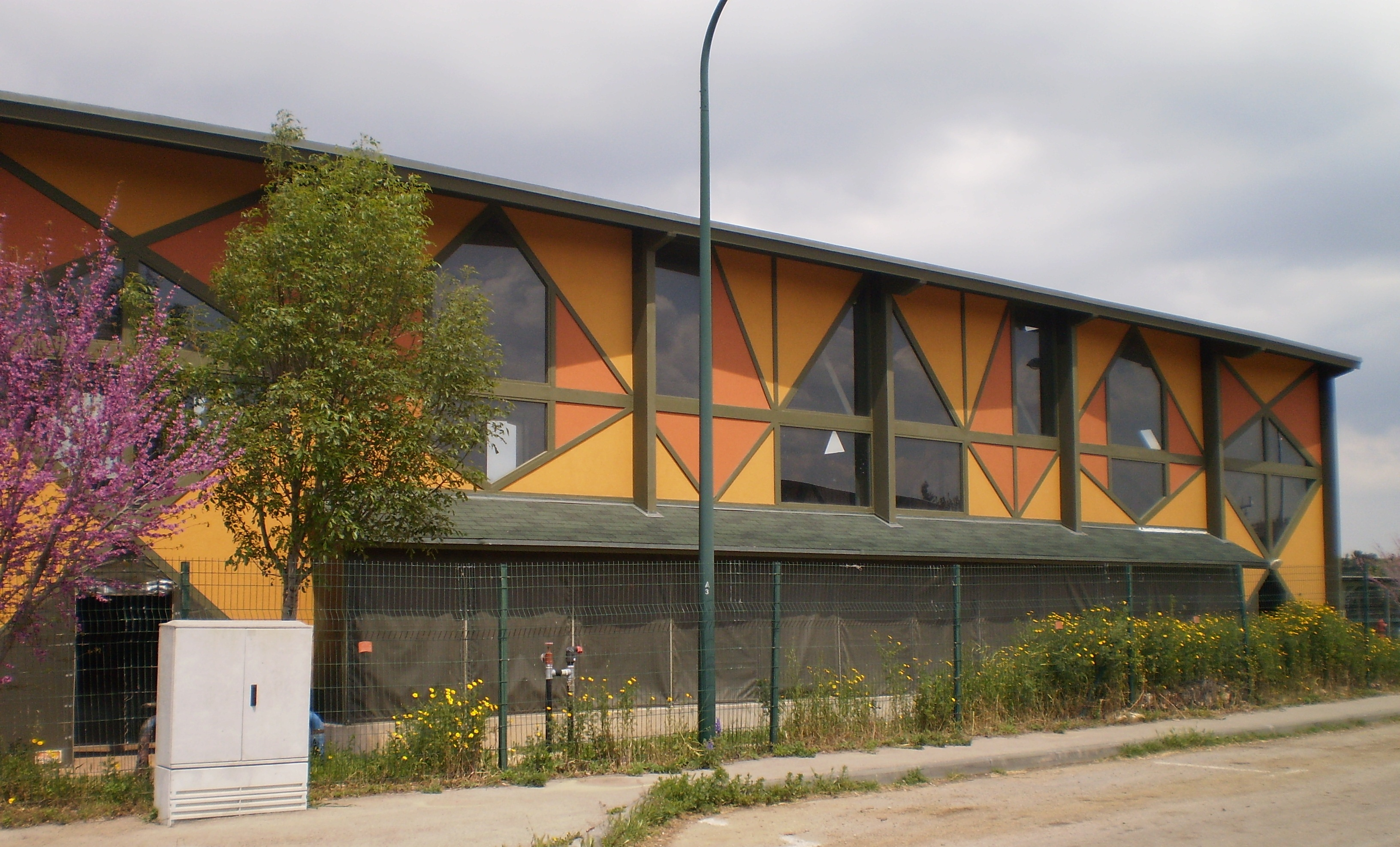 Harduf sports hall אולם הספורט בהרדוף